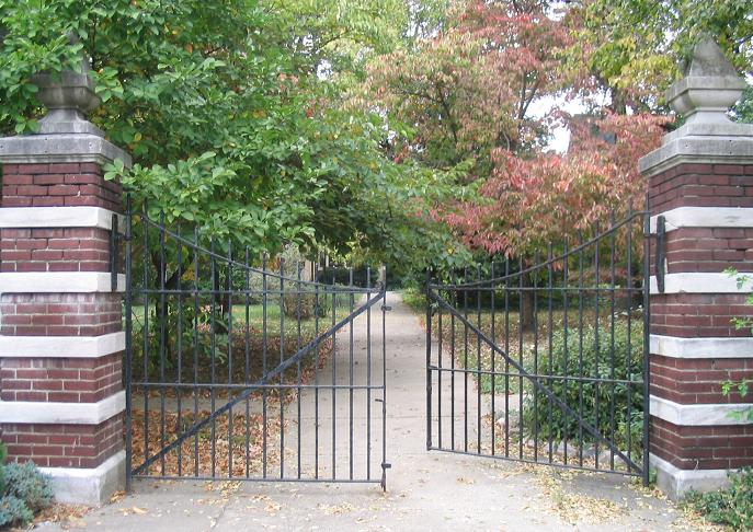 Photo by Quadell